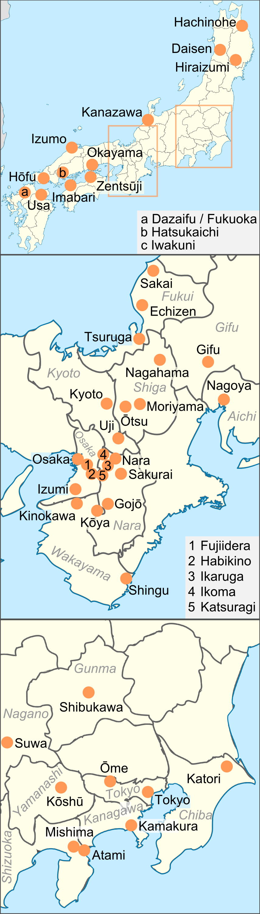 Map showing the location of non-sword craft National Treasures of Japan in the category other crafts.